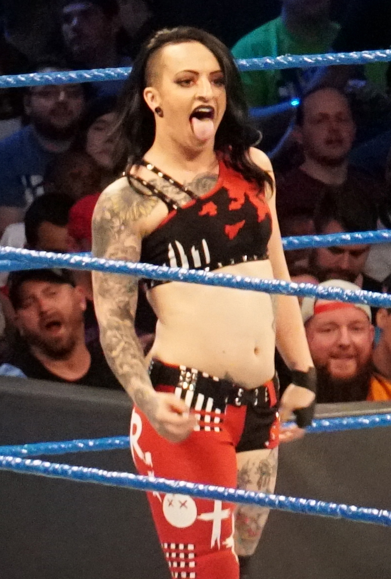 NOLA 2018 - WWE Smackdown Live - Becky Lynch Vs Ruby Riott